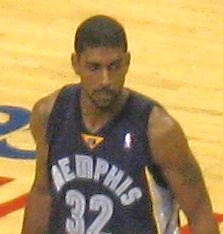 OJ Mayo during a jump ball before the Memphis Grizzlies vs. Dallas Mavericks game, Dec. 23, 2008